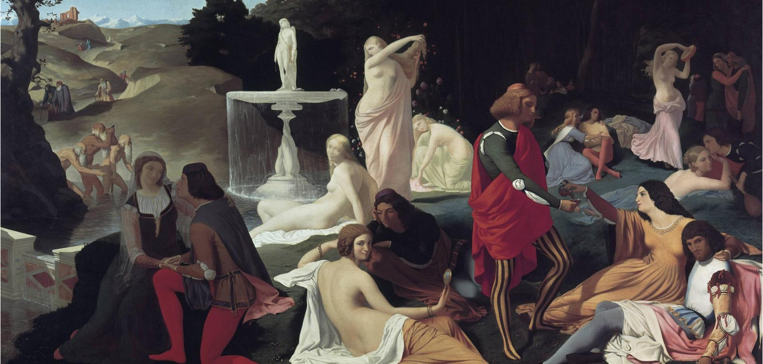 La Fontaine de Jouvence [Fountain of Youth] by William Haussoulier, oil on canvas. Dim.: 135 x 186 cm. Royal Academy 1844 Salon de 1845, Paris. Purchassed by Graham Reynolds in December 17, 1937 at Christie's [£5]. See: Apollo (Vol. 162, Issue 522), August 2005 Located in London, coll. Graham Reynolds.